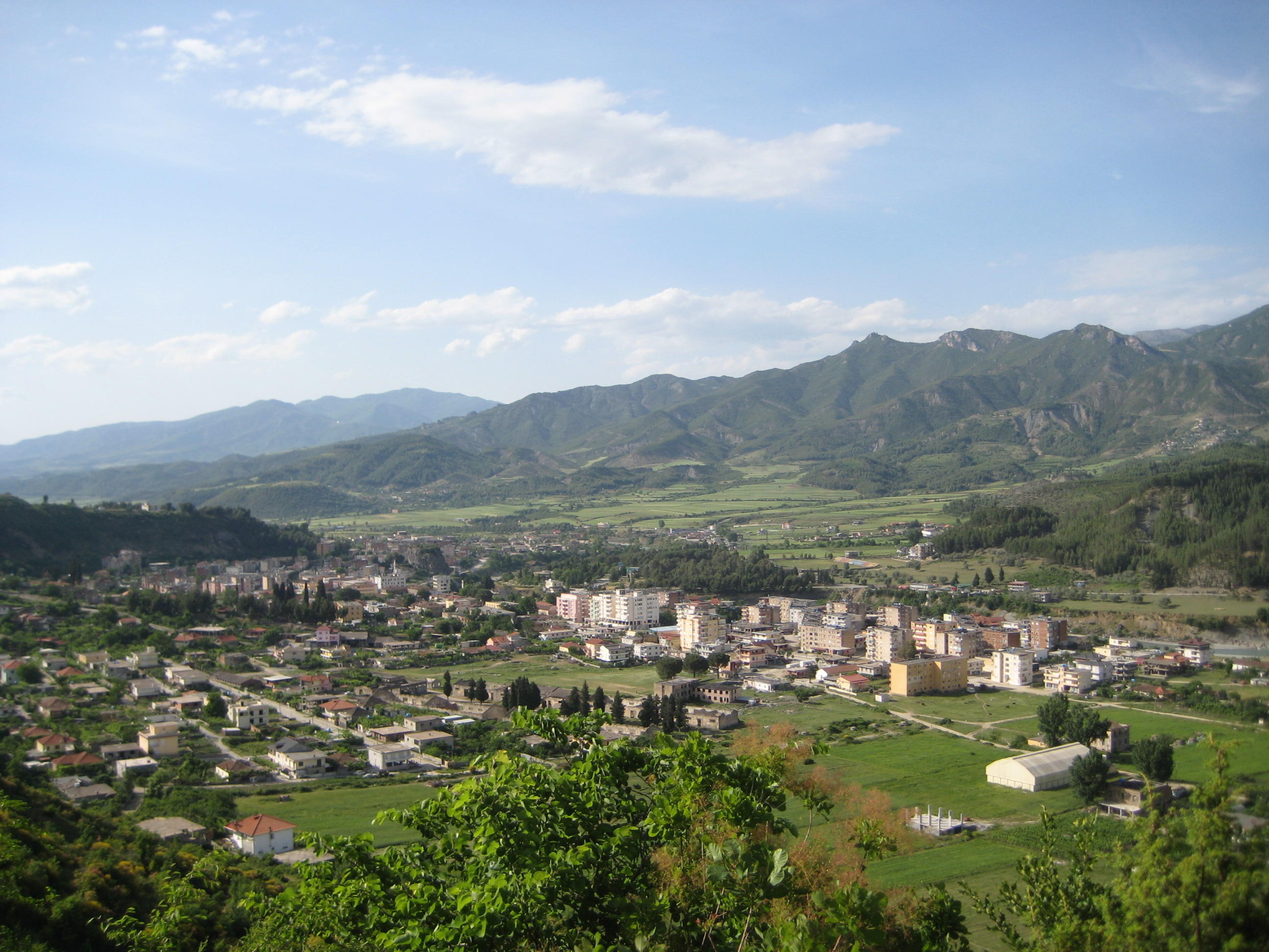 View of the city of Permet, looking northeast from the village of Leuse